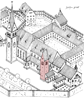 Reconstruction, St. Gallen monastery